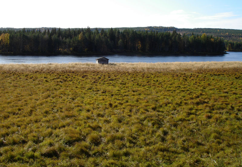 Old wet meadow in Rusksele by the river Vindelälven in northern Sweden. After having been abandoned and overgrown with bushes, they have now been cleared and are used for grazing by cattle.